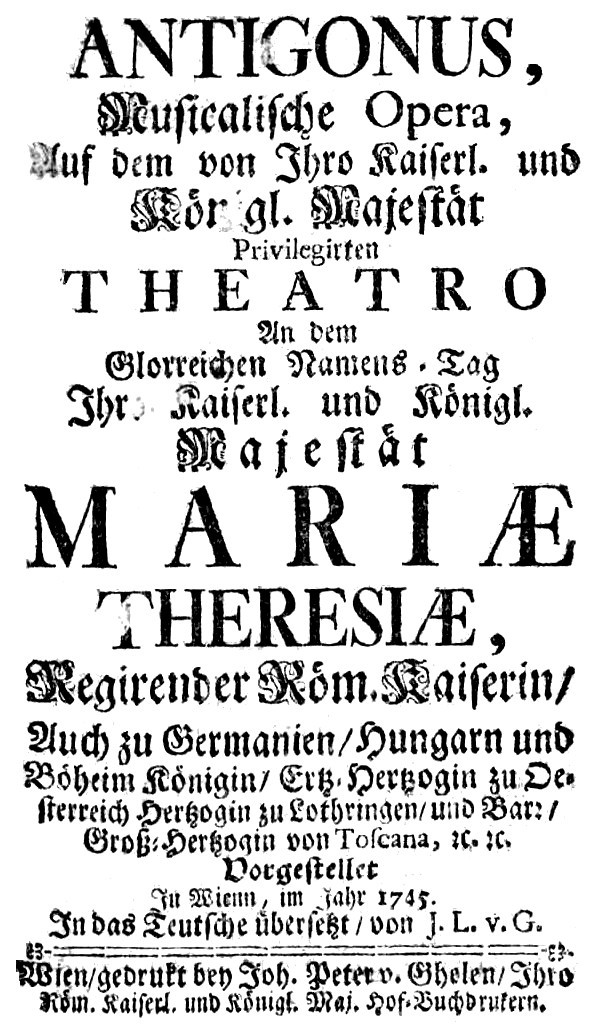 Johann Leopold von Ghelen - Antigono - titlepage of the libretto - Wien 1745